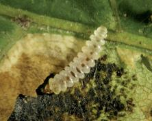 Cameraria ohridella